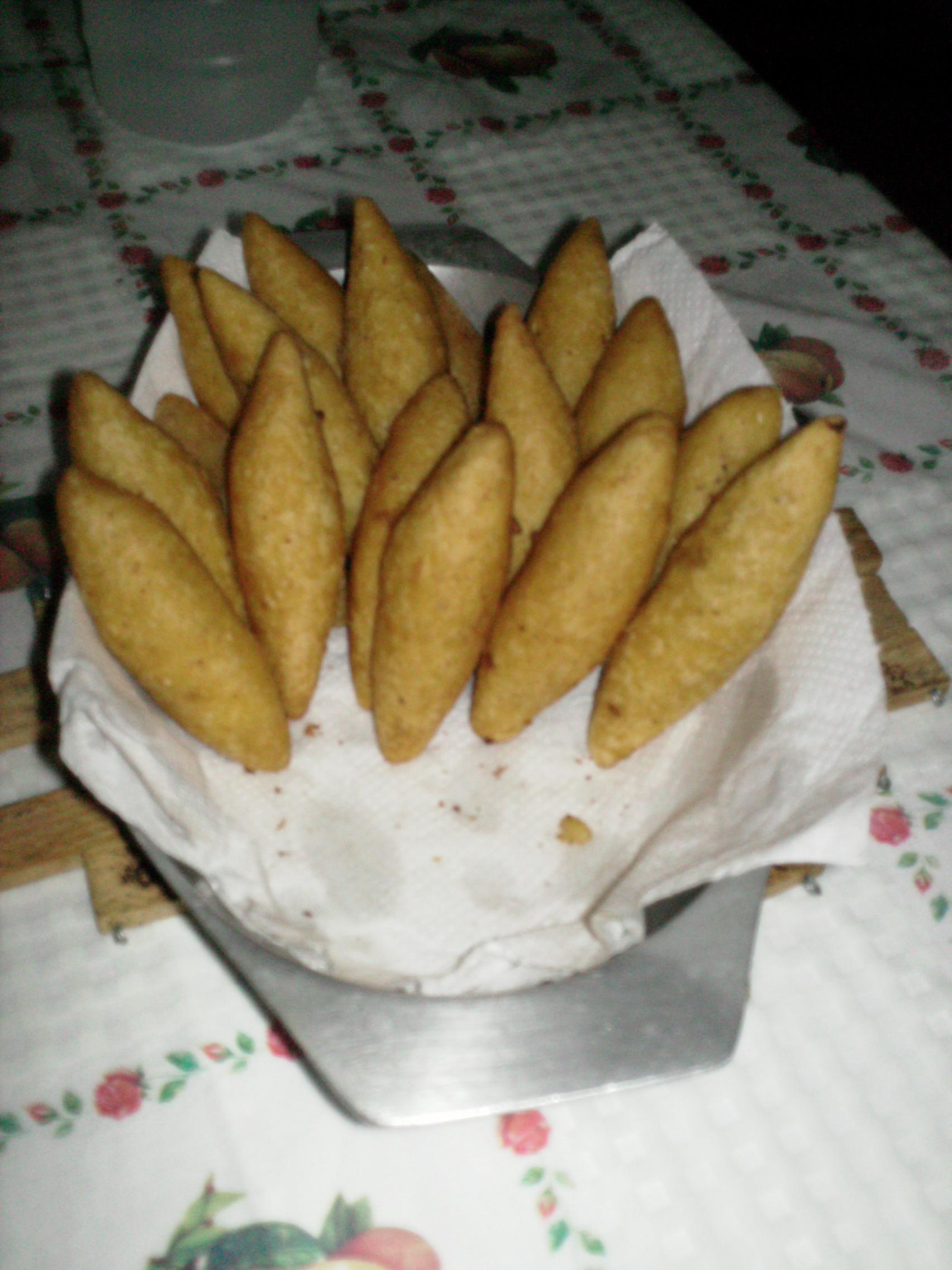 A bolinho caipira, traditional Brazilian delicacy.